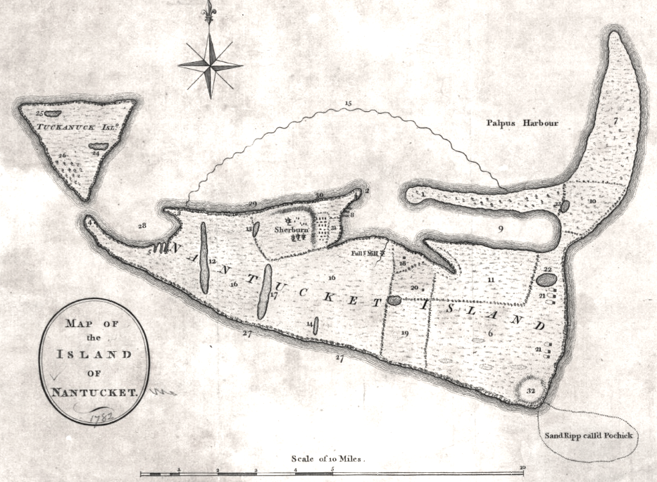 Map of the island of Nantucket Author: St. John de Crèvecoeur, J. Hector Date: 1782 Dimensions: 20 x 28 cm. Scale: ca. 1:110,000 Reference: LC Maps of North America, 1750-1789, 882 Call Number: From the Collections of the Geography and Map Division, Library of Congress